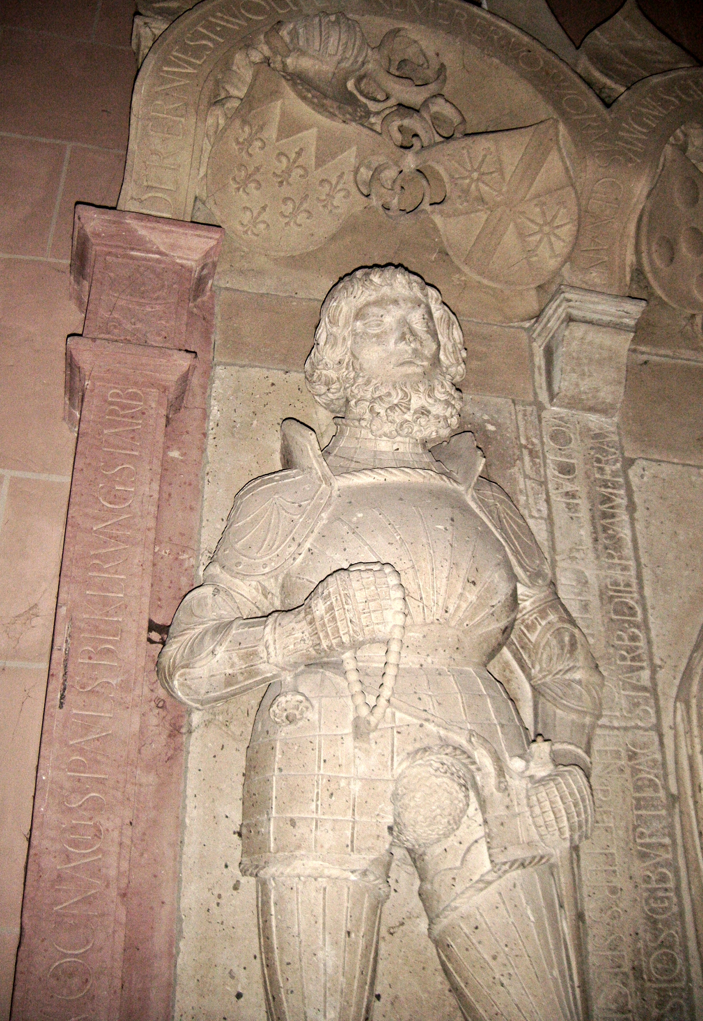 Wolfgang von Dalberg, auch Wolf der Lange von Dalberg (1473-1522), Epitaph Katharinenkirche Oppenheim